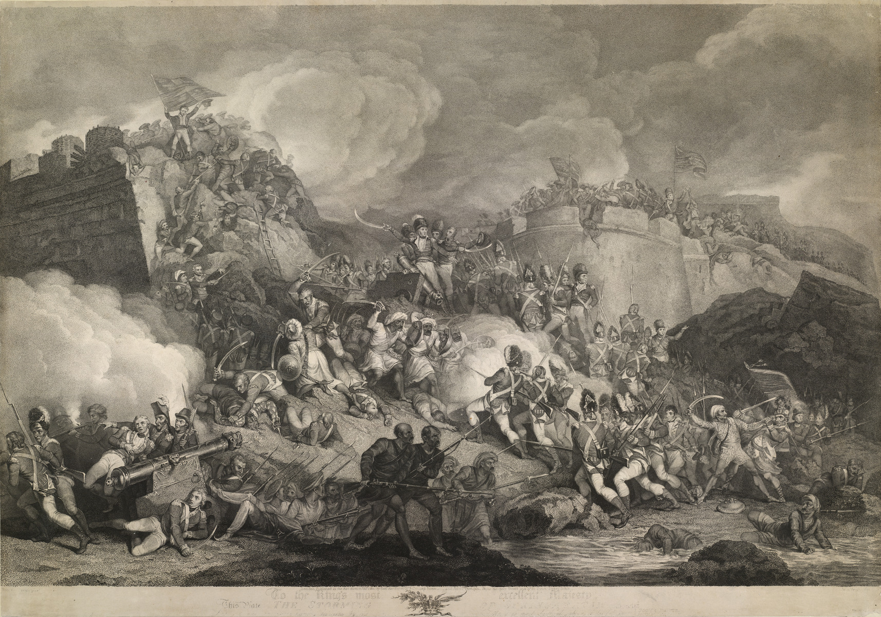 The storming of Seringapatam, in India. Engraving.